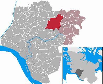 This map shows the area of the municipality Hohenlockstedt in the Kreis (district) Steinburg, Schleswig-Holstein, Germany.